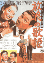 Movie poster for 1950 Japanese movie (放浪の歌姫 Hōrō no utahime, literally "The Wandering Songstress".